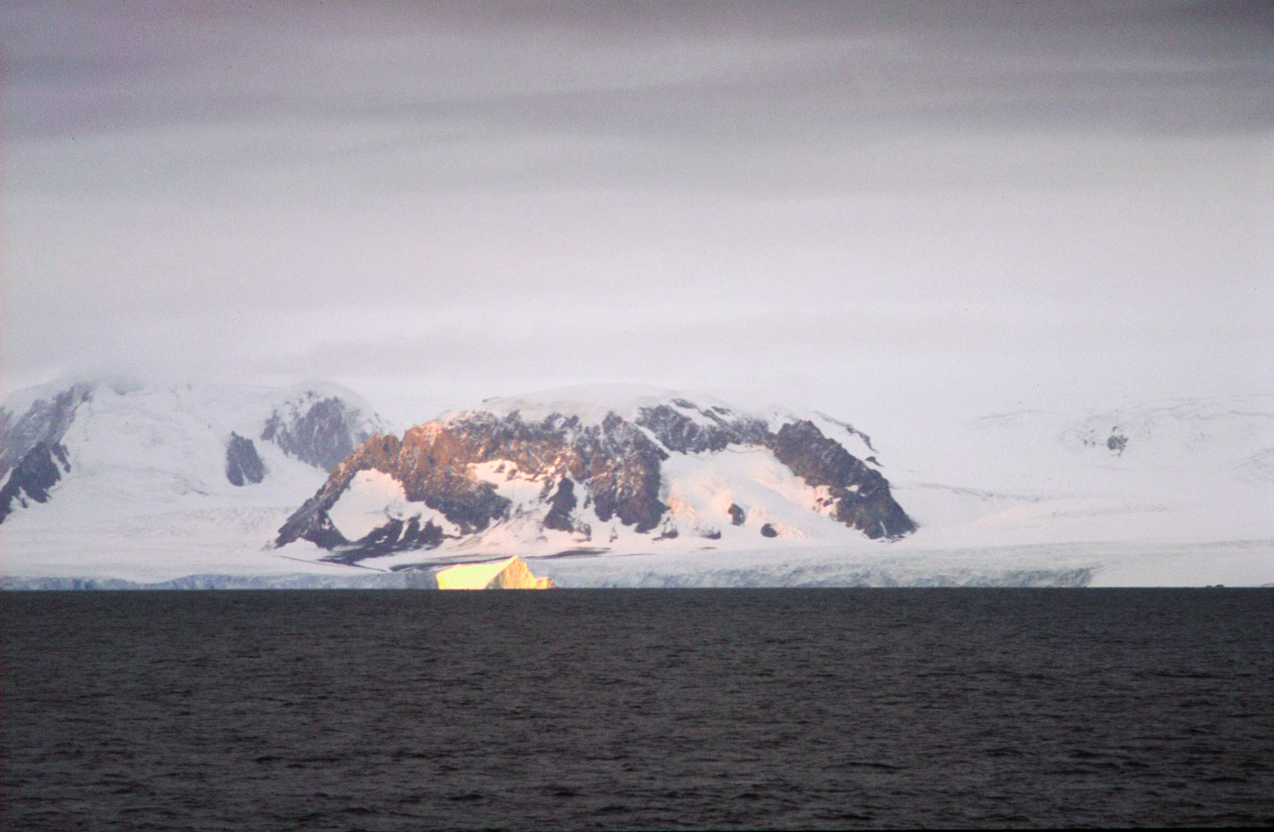 Picture of Elephant Island taken from the sea by an employee of the The National Oceanic and Atmospheric Administration